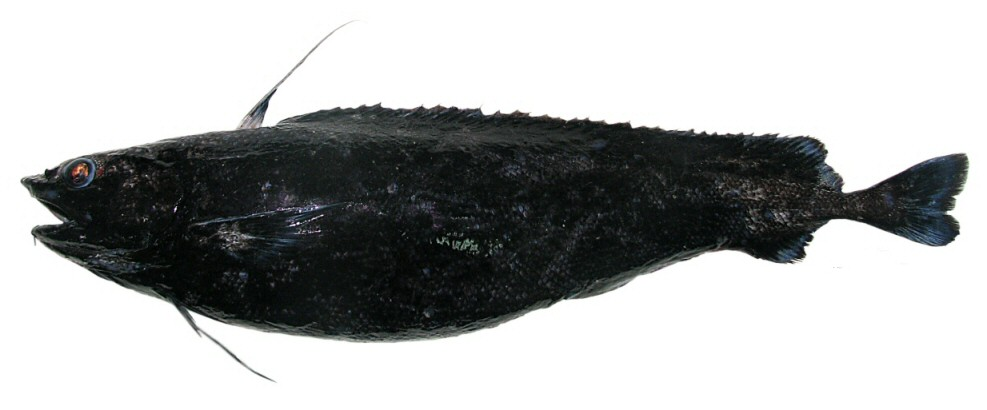 Antimora rostrata (Blue antimora), 65 cm TL. Ross Sea (Antarctica), FV "Tronio", Spanish bottom longline, 21 January 2010, depth 1240 m